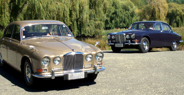 1968 Jaguar 420 (gold) and 1967 Daimler Sovereign (blue)